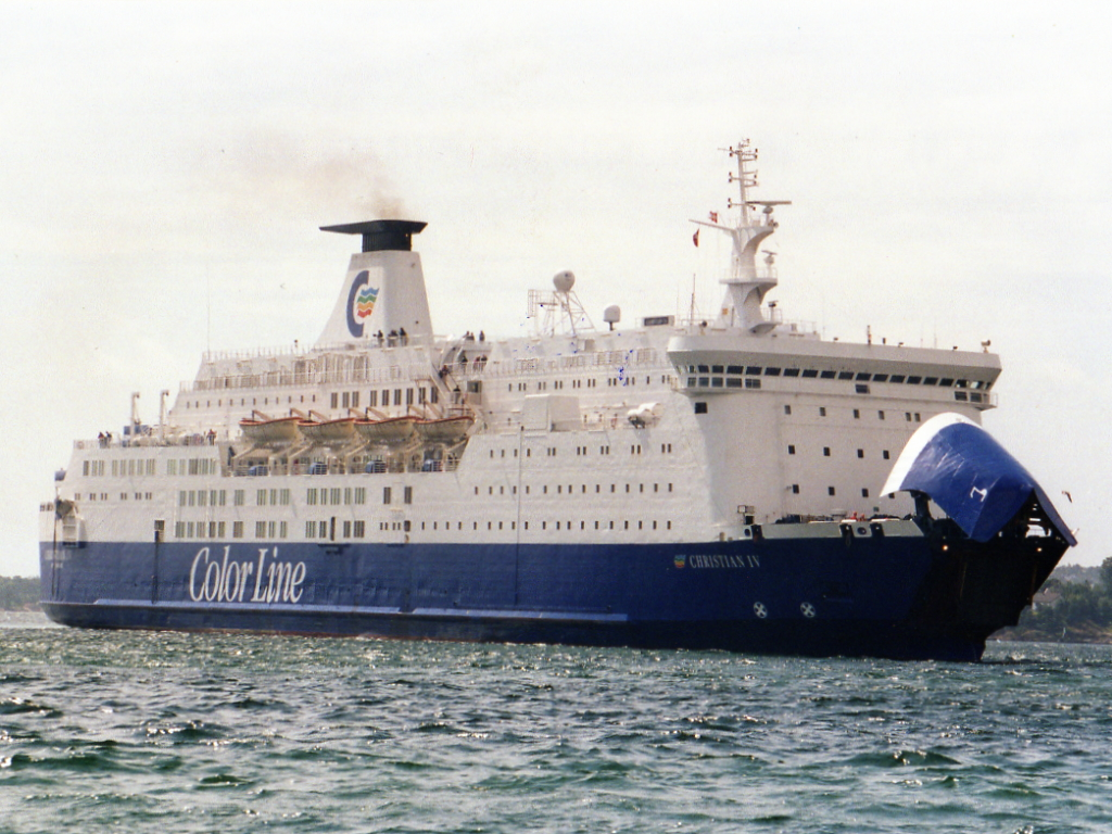 M/S Christian IV in Kristiansand, w/o duck-tail